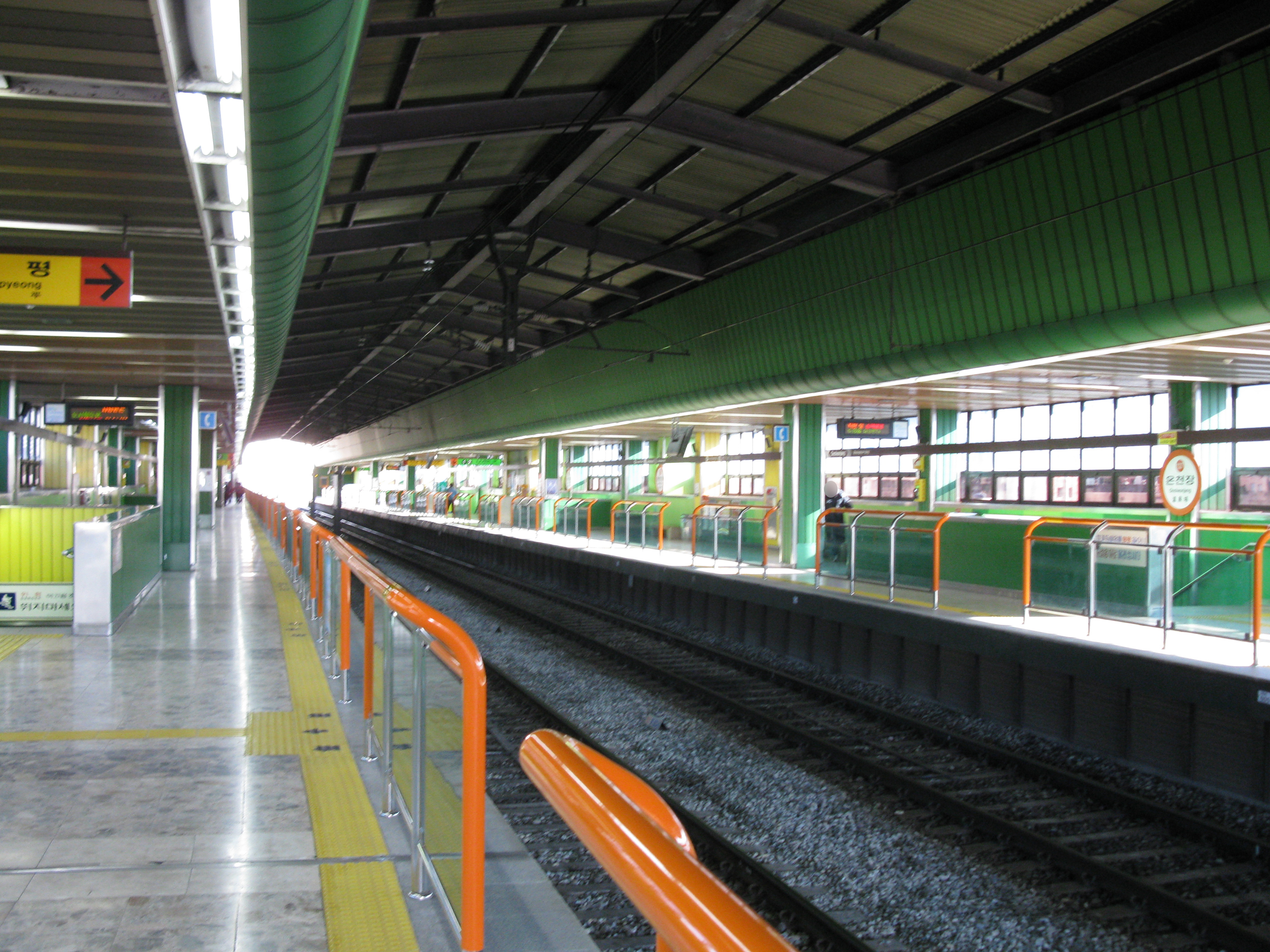 Oncheonjang Station platform (Busan Subway Line 1)